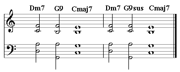 Cadence from in Jazzmusic. File by the uploader.